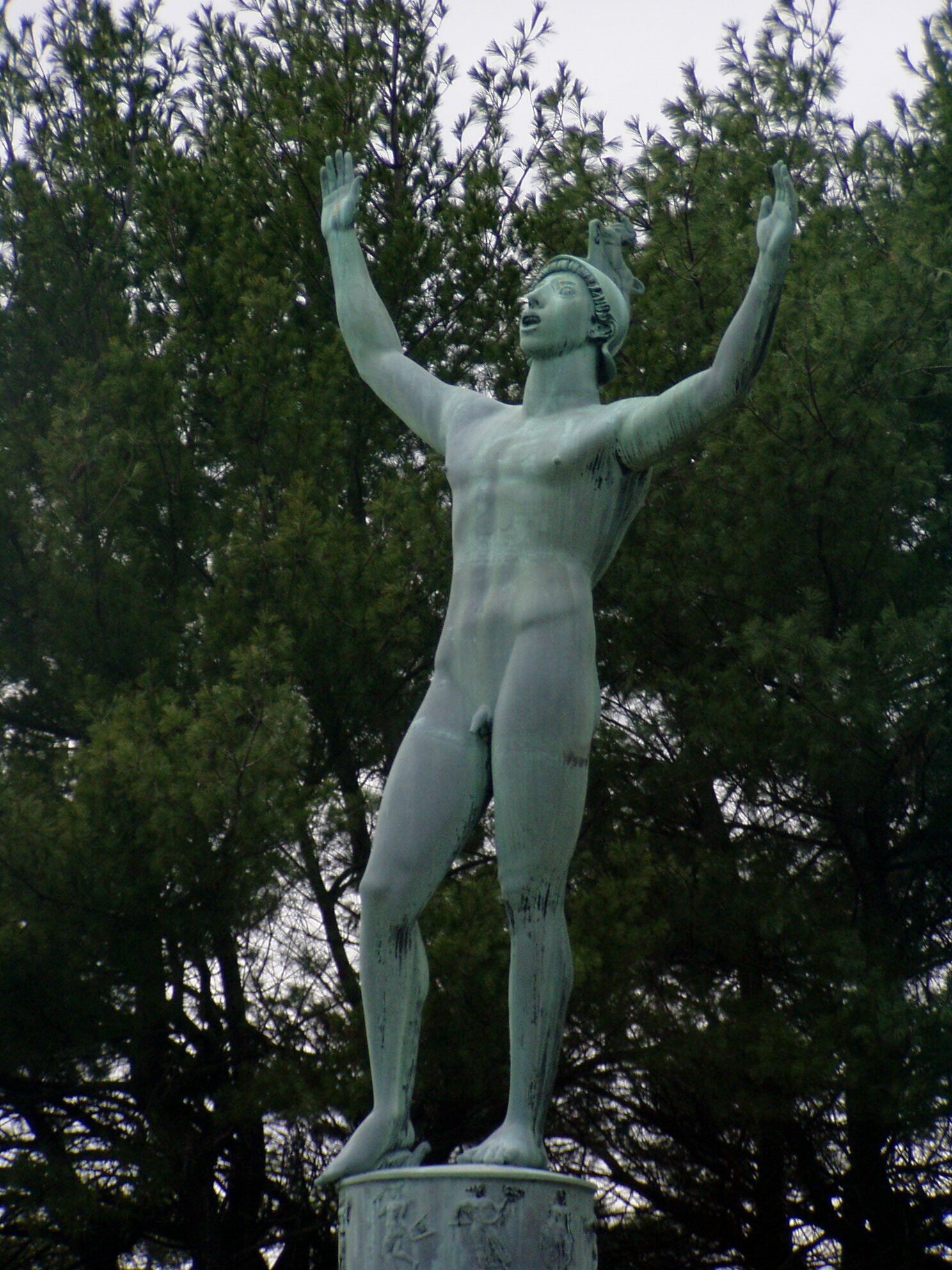 Sunsinger by Carl Milles, National Memorial Gardens, Falls Church, Virginia, USA